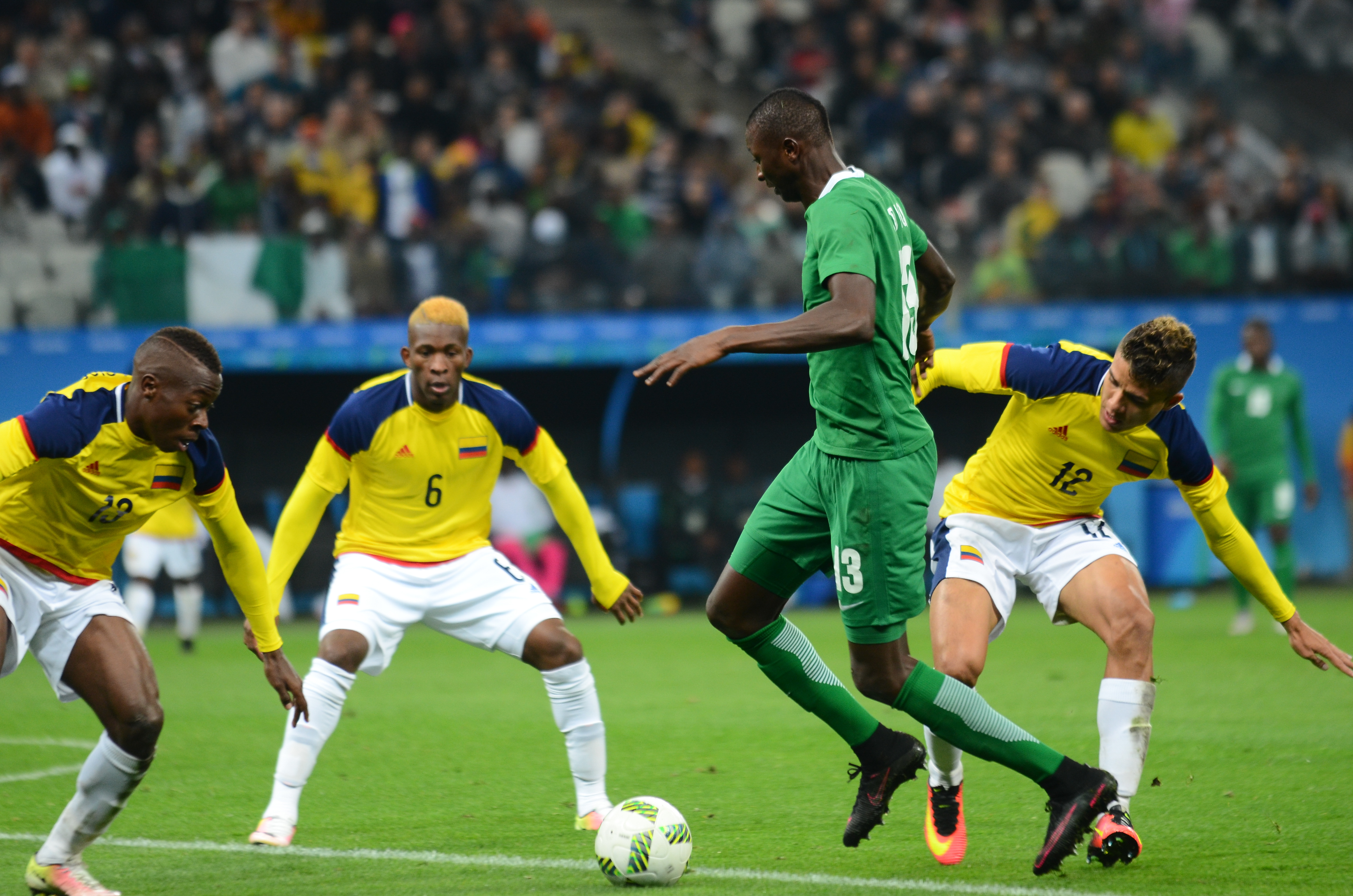 São Paulo - Colômbia vence a Nigéria por 2x0 na Arena Corinthians (Rovena Rosa/Agência Brasil)